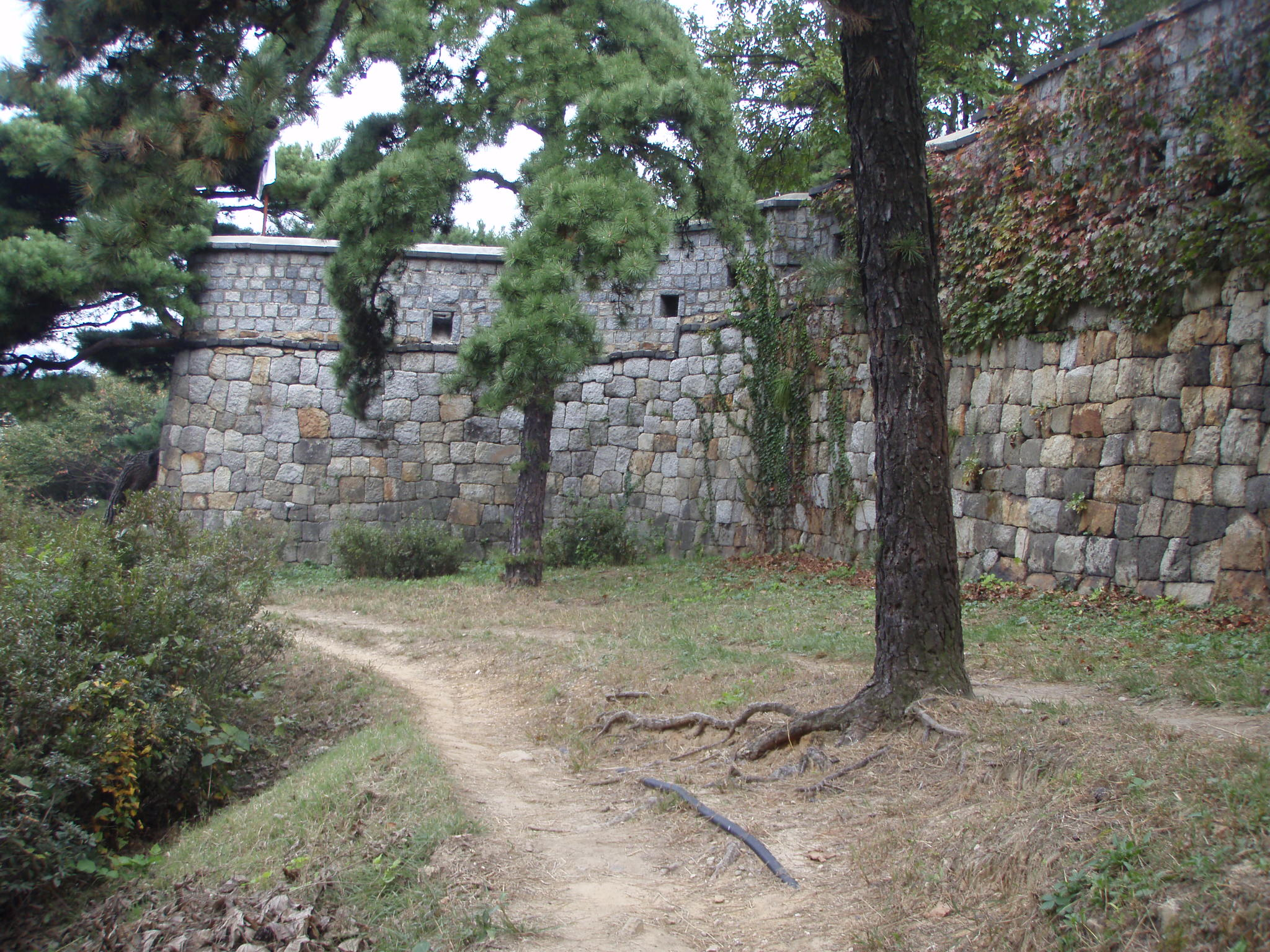 Seoichi Suwon Hwaseong Fortress UNESCO